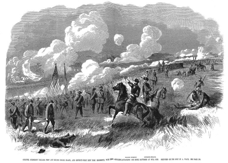 Colonel [Ambrose E.] Burnside, First and Second Rhode Island, and Seventy-first New York Regiments, with Their Artillery, Attacking the Rebel Batteries at Bull Run. Sketched on the spot by A. Waud.